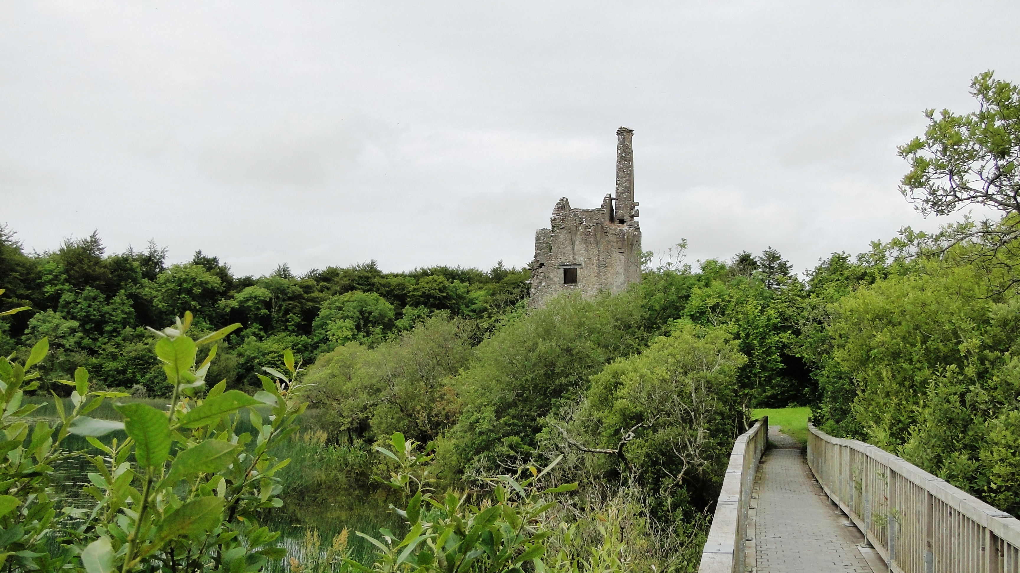 View of the ruins of Dromore Castle, County Clare, Ireland as seen from the wooden walkway